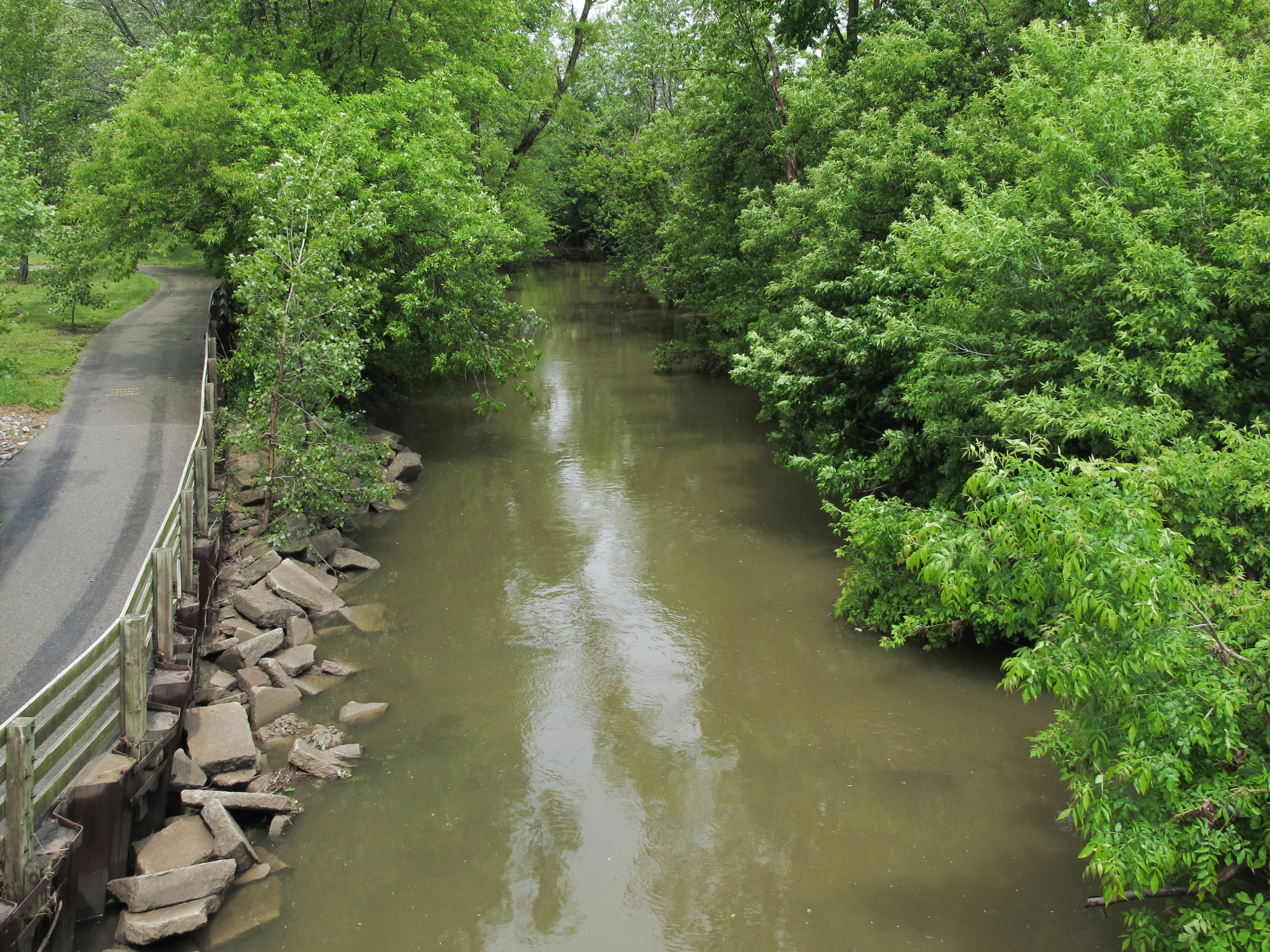 The Macatawa River as viewed downstream from Adams Street in Holland Charter Township, Michigan, paralleled by a recreational trail in Adams Street Landing park.